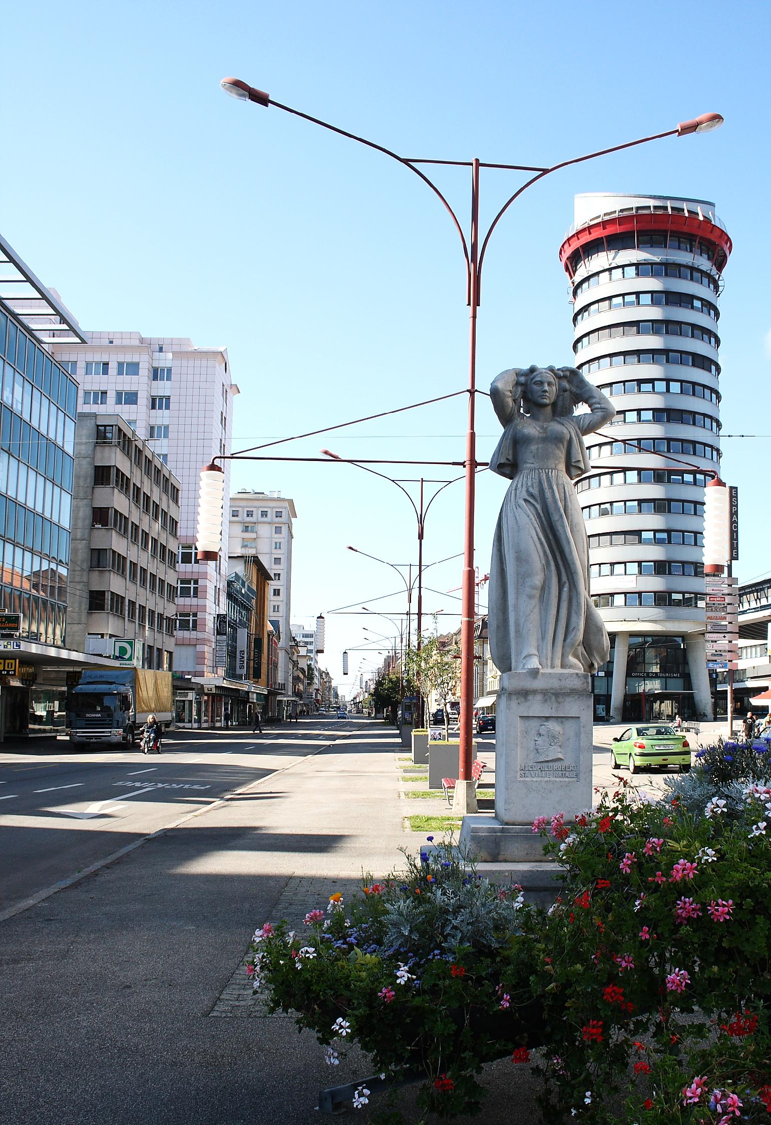 La Chaux de Fonds (avenue Léopold Robert), Switzerland